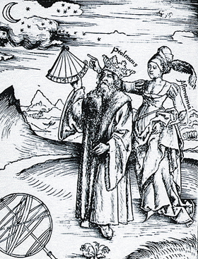 Sixteenth century engraving of Claudius Ptolemy (AD c100-170) being guided by the muse of Astronomy, Urania - Margarita Philosophica by Gregor Reisch, published in 1508.